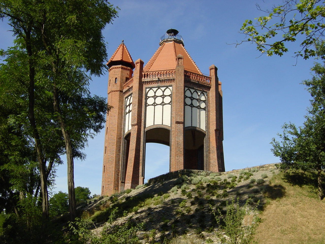 Bismarck Tower in Rathenow, Brandenburg, Germany, built 1913, opened 24/06/1914